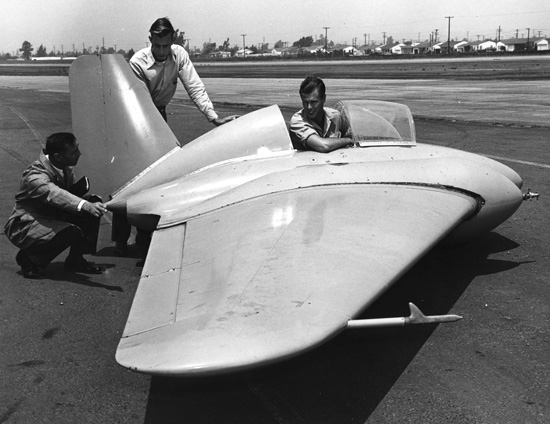 The manned glider prototype of the Northrop JB-1 "Bat" jet-powered cruise missile is prepared for flight.